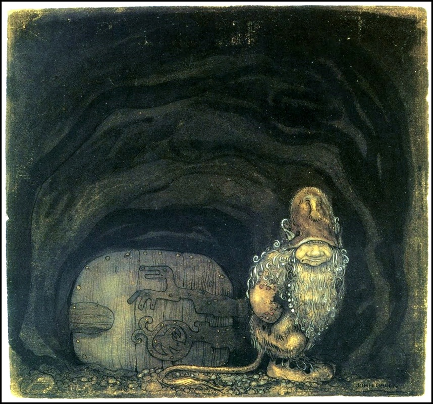 Illustration for " När Trollmor skötte Kungens Storbyk " by Elsa Beskow in "Bland tomtar och troll" (Among gnomes and trolls), 1914. See also Image:Inga by John Bauer 1914.jpg from the same story.